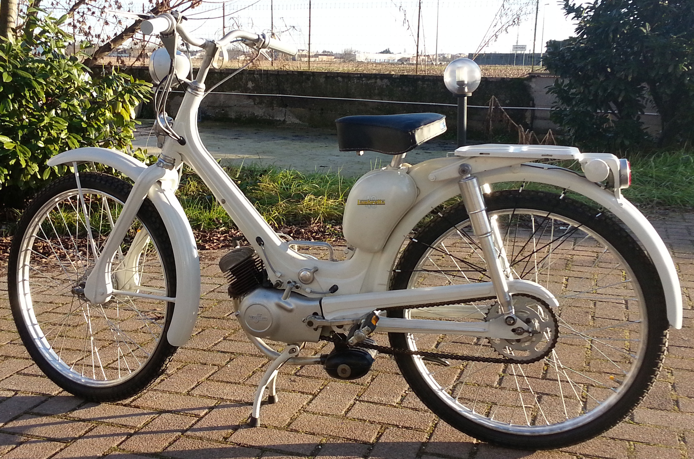 Lambretta 48 moped, a 48 cc moped produced between 1954 and 1959 by Lambretta in Italy, part of parent group Innocenti